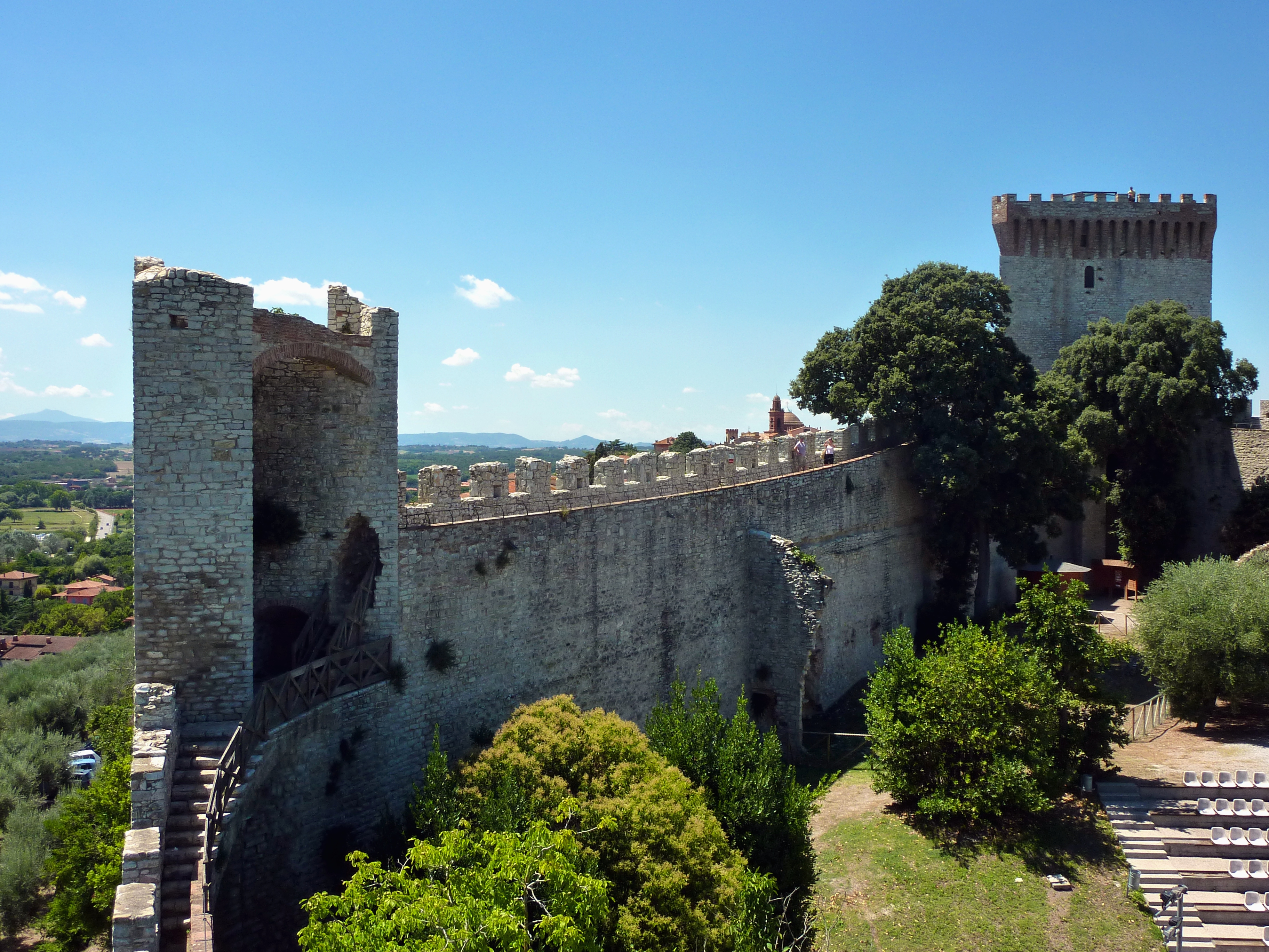 View of the fortress at Castiglione del Lago, Italy.